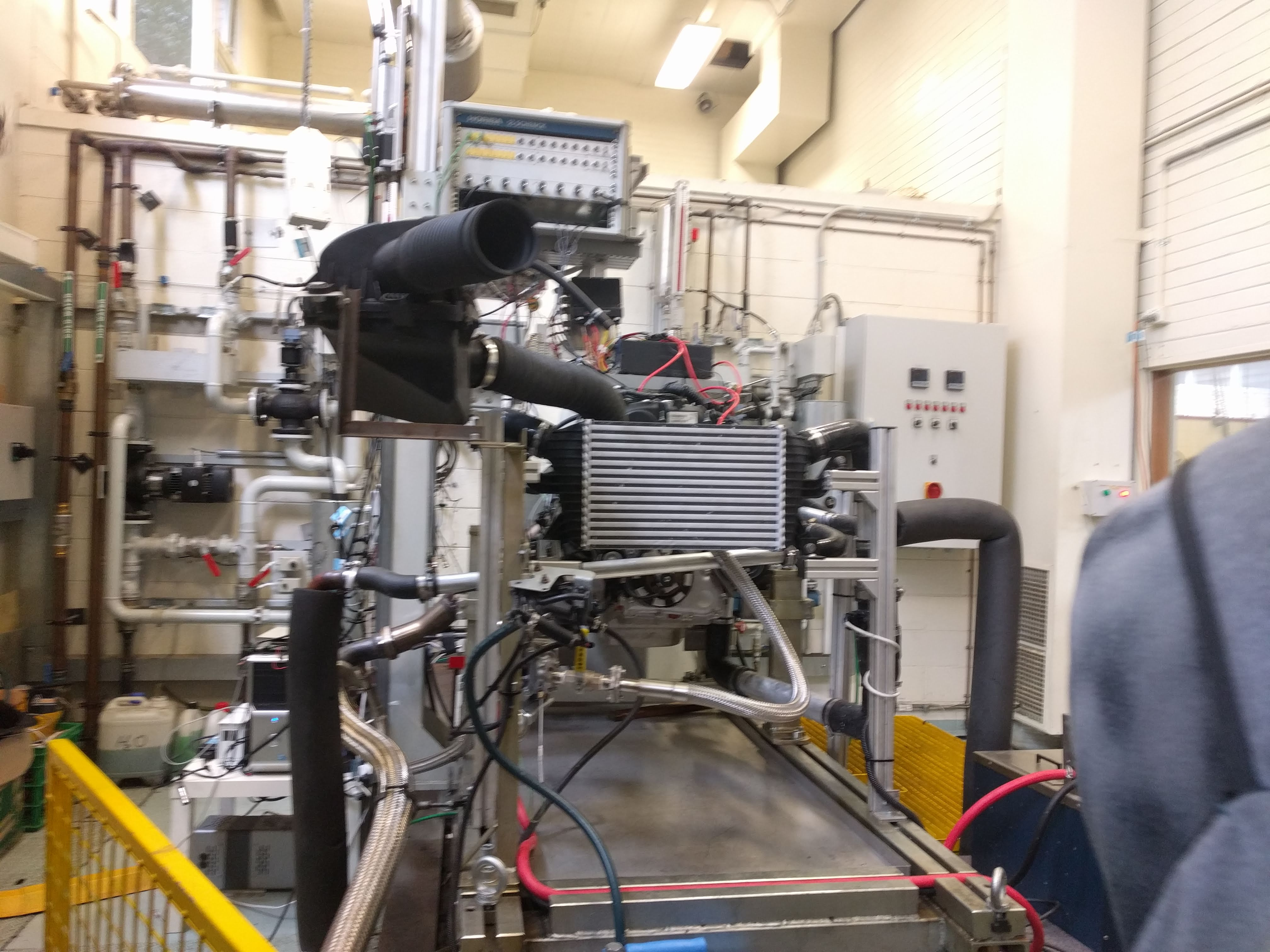 A testing rig at Melbourne University, intended for testing biofuel engines, showcasing plumbing and electrics.